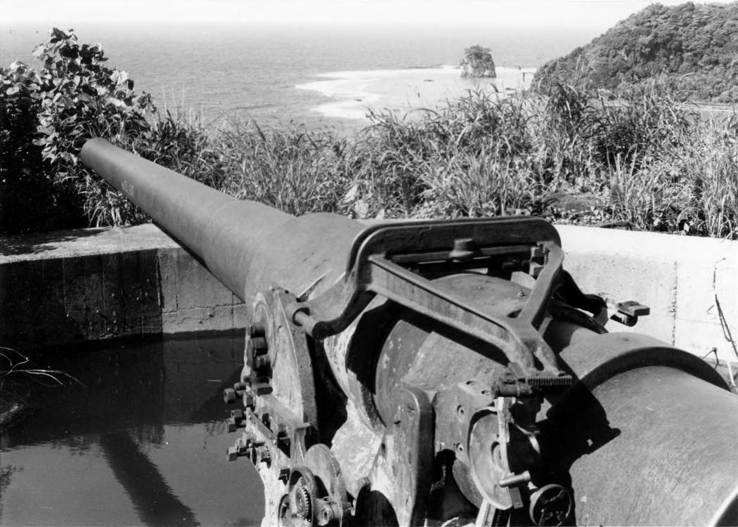 6"/50 caliber Mark 8 naval gun at the Blunts Point Battery, a U.S. National Historic Landmark on Tutuila, American Samoa. Image was included as part of the battery's nomination to the National Register of Historic Places.